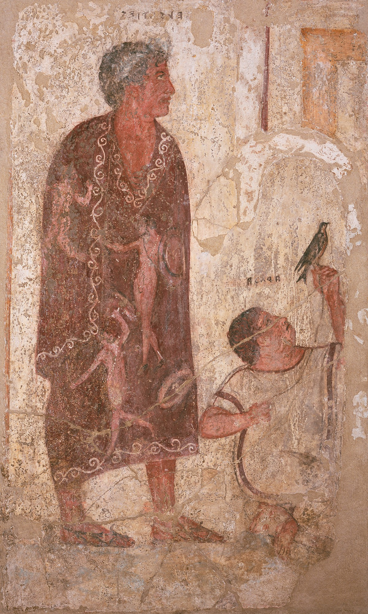 Mural in the Tomba François